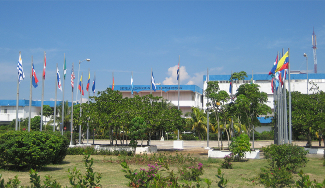 ELAM main building